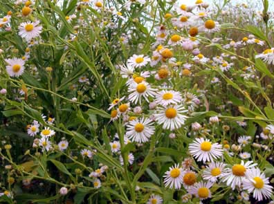 Boltonia decurrens USFWS photo